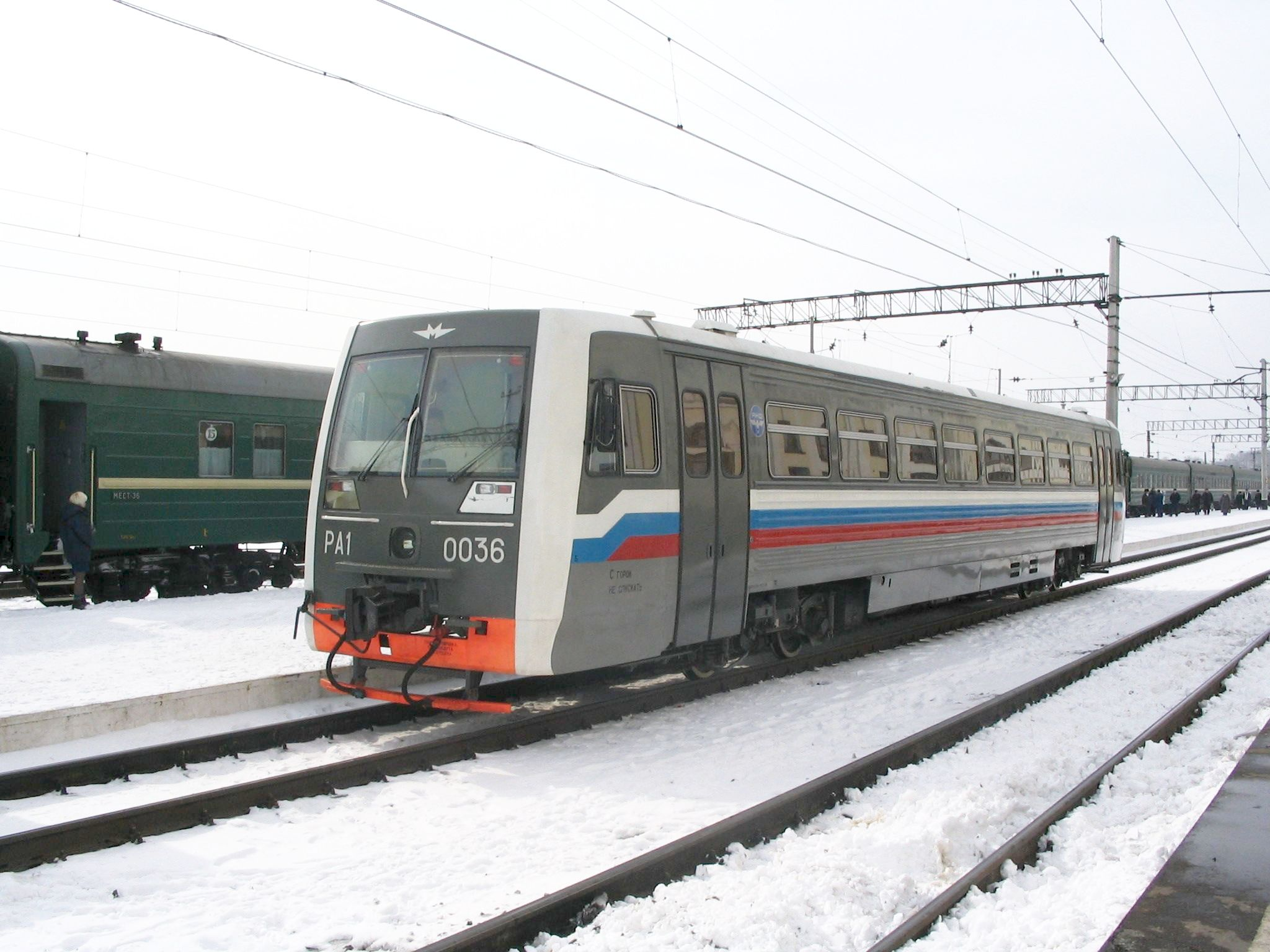 Railbus RA-1 in Tomsk.